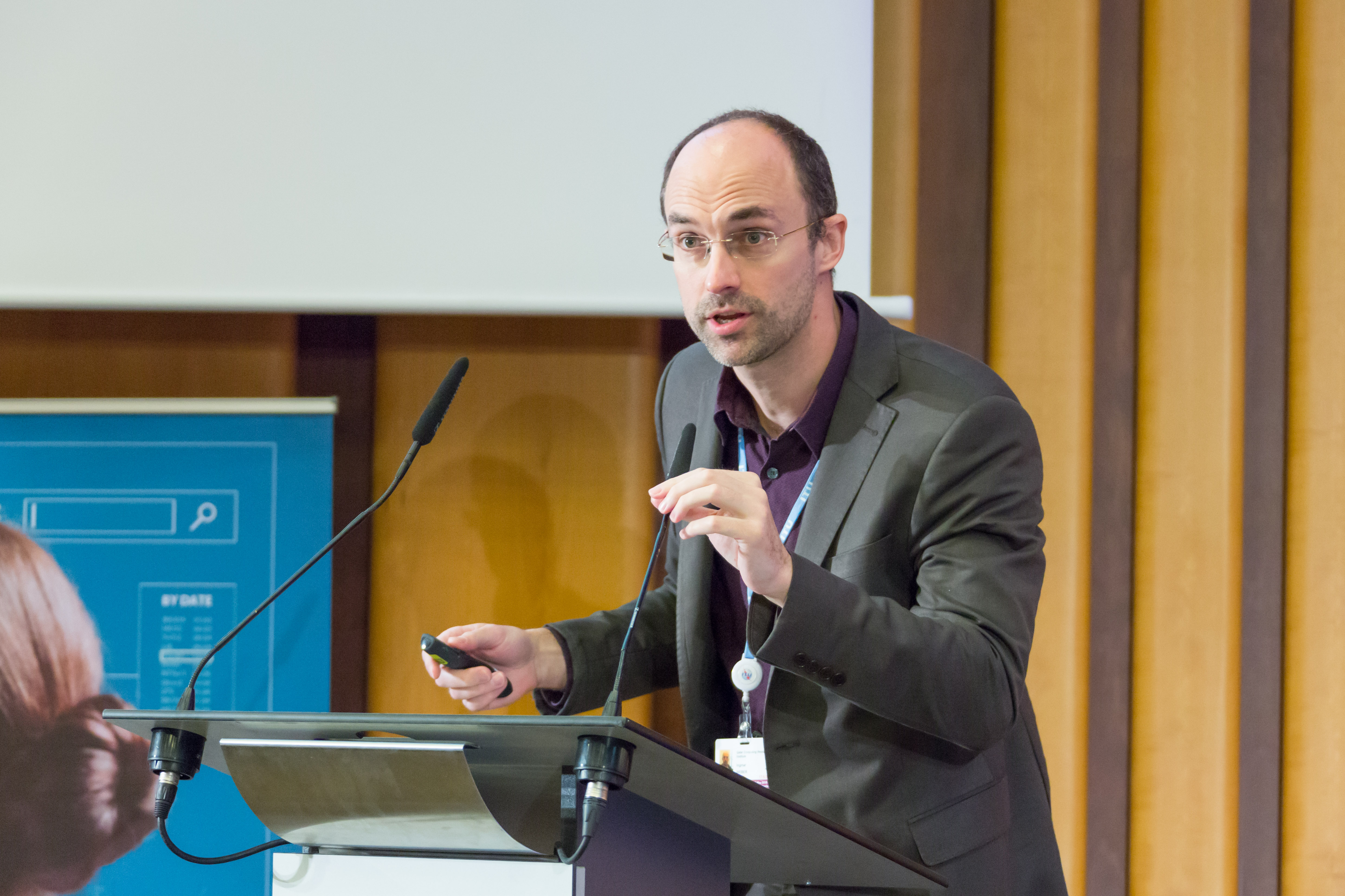 Ingmar Weber, Research Director for Social Computing, Qatar Computing Research Institute​, at the AI for Good Global Summit 2018 15-17 May 2018, Geneva ©ITU/D.Woldu ITU (International Telecommunication Union)